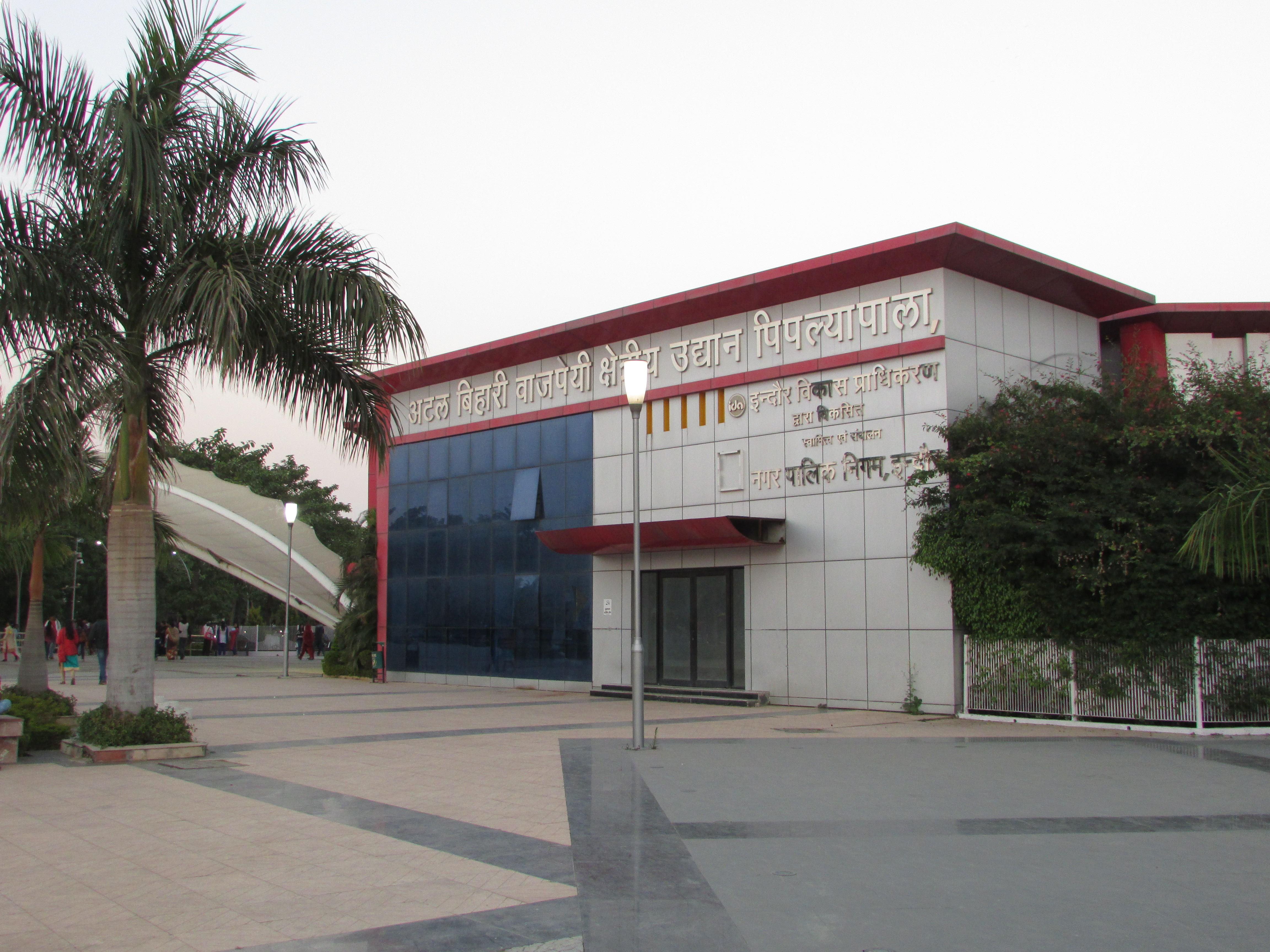 front view of Park, Indore